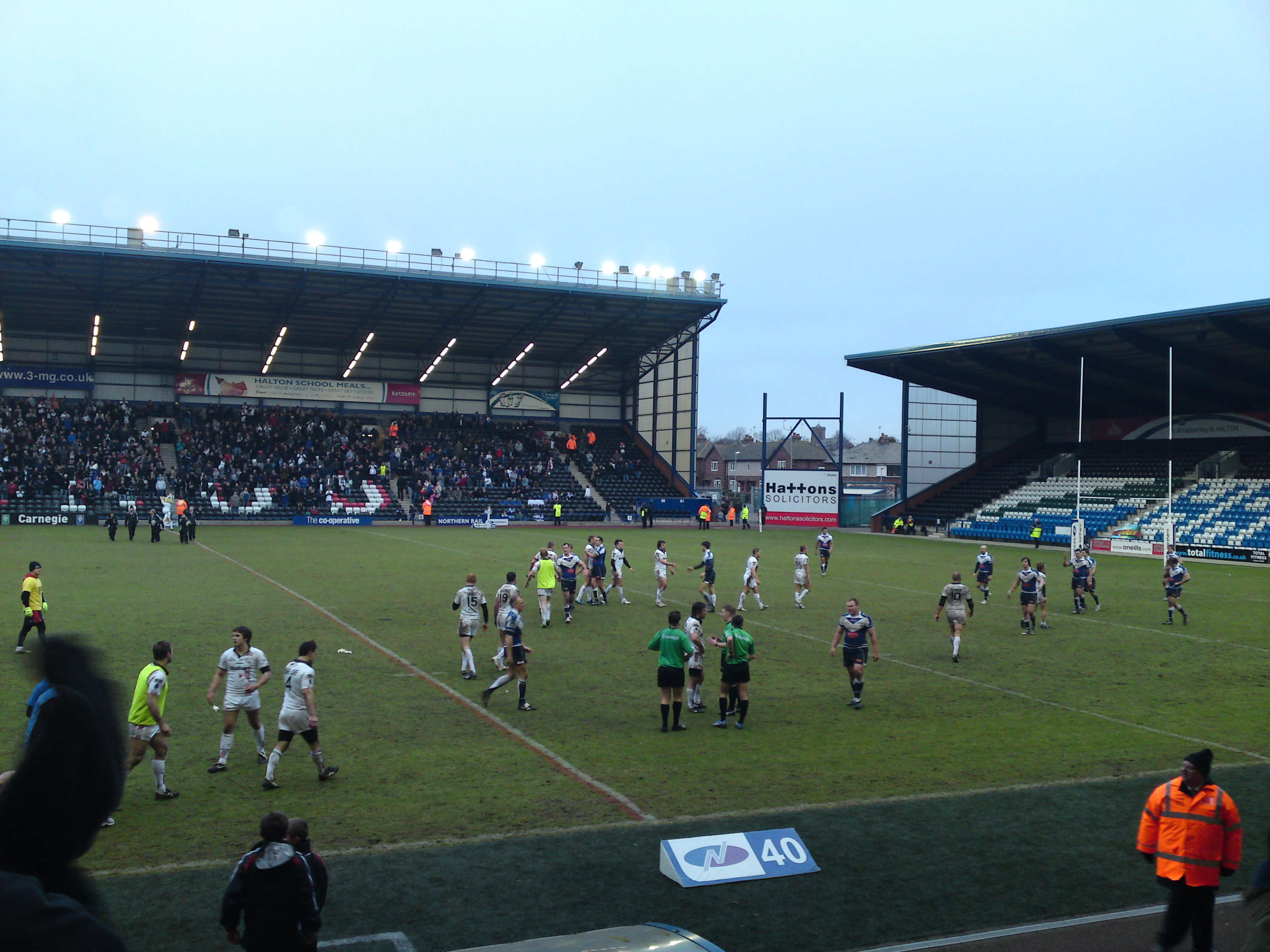 Widnes Vikings vs Salford City Reds. Friendly match, taken from the North Stand at the Stobart Stadium (Halton Stadium).